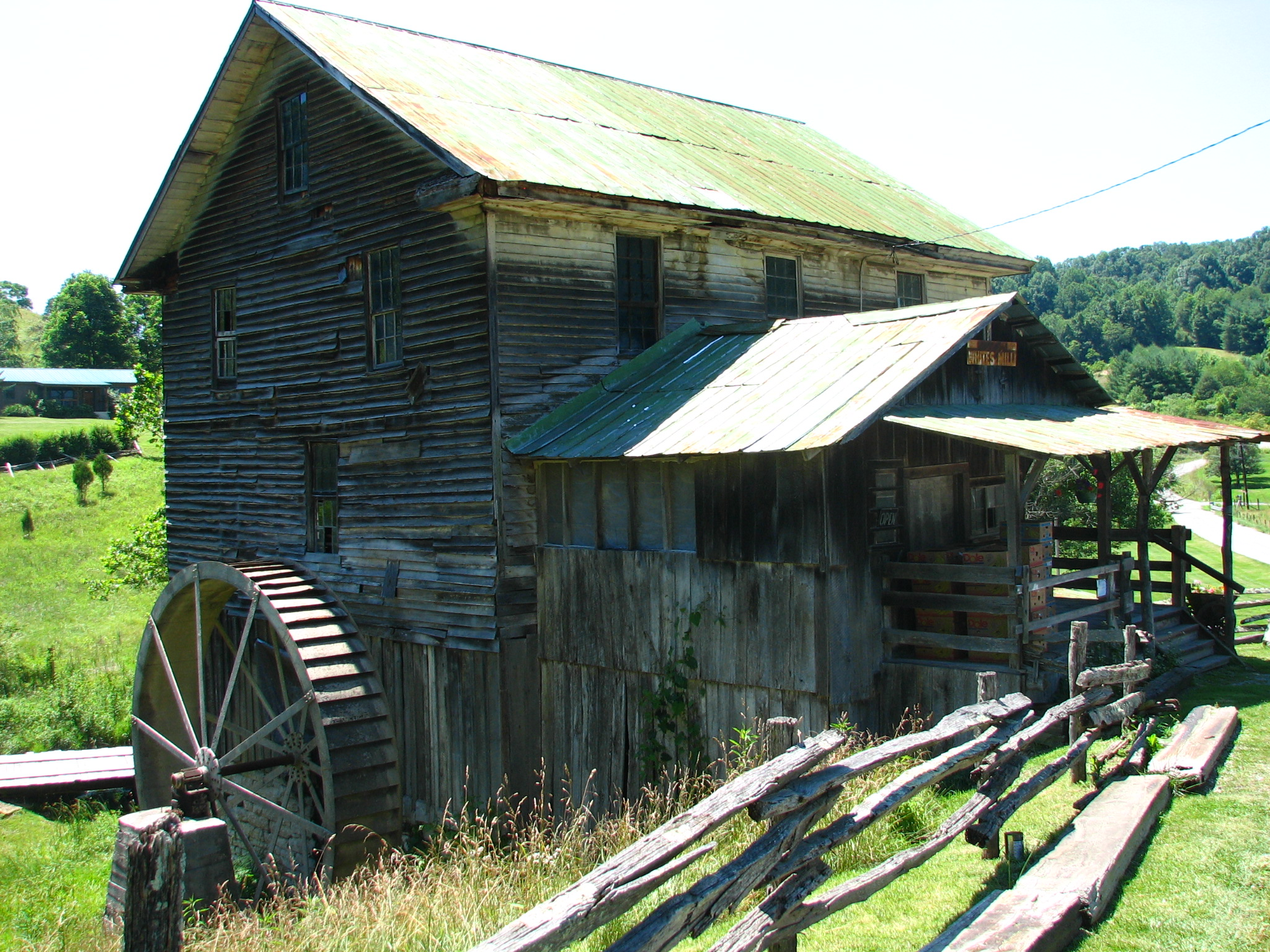 Whites Mill located in Washington County VA, outside the town of Abingdon.